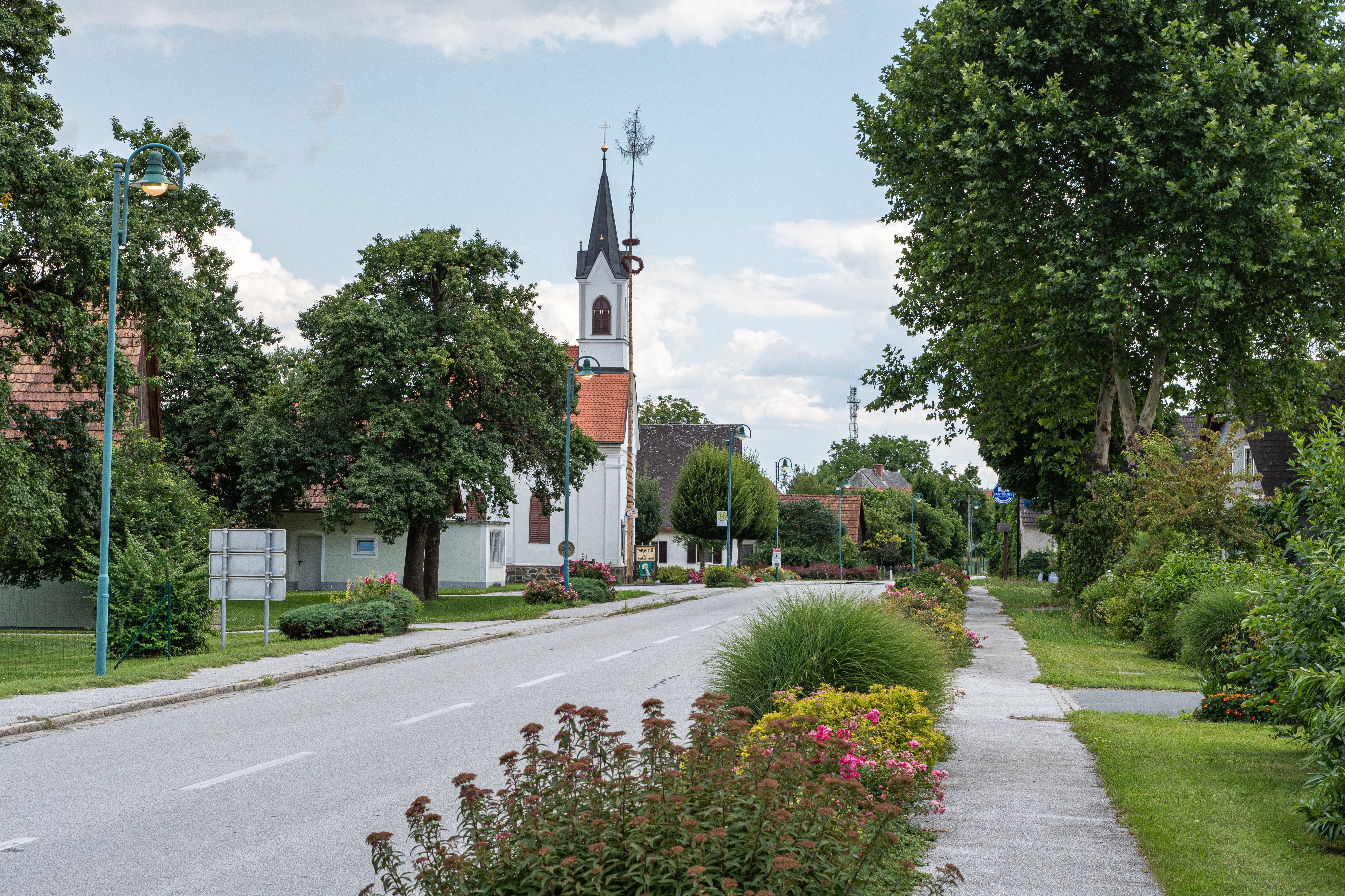 View of village Zwaring-Pöls with chapel. Zwaring-Pöls